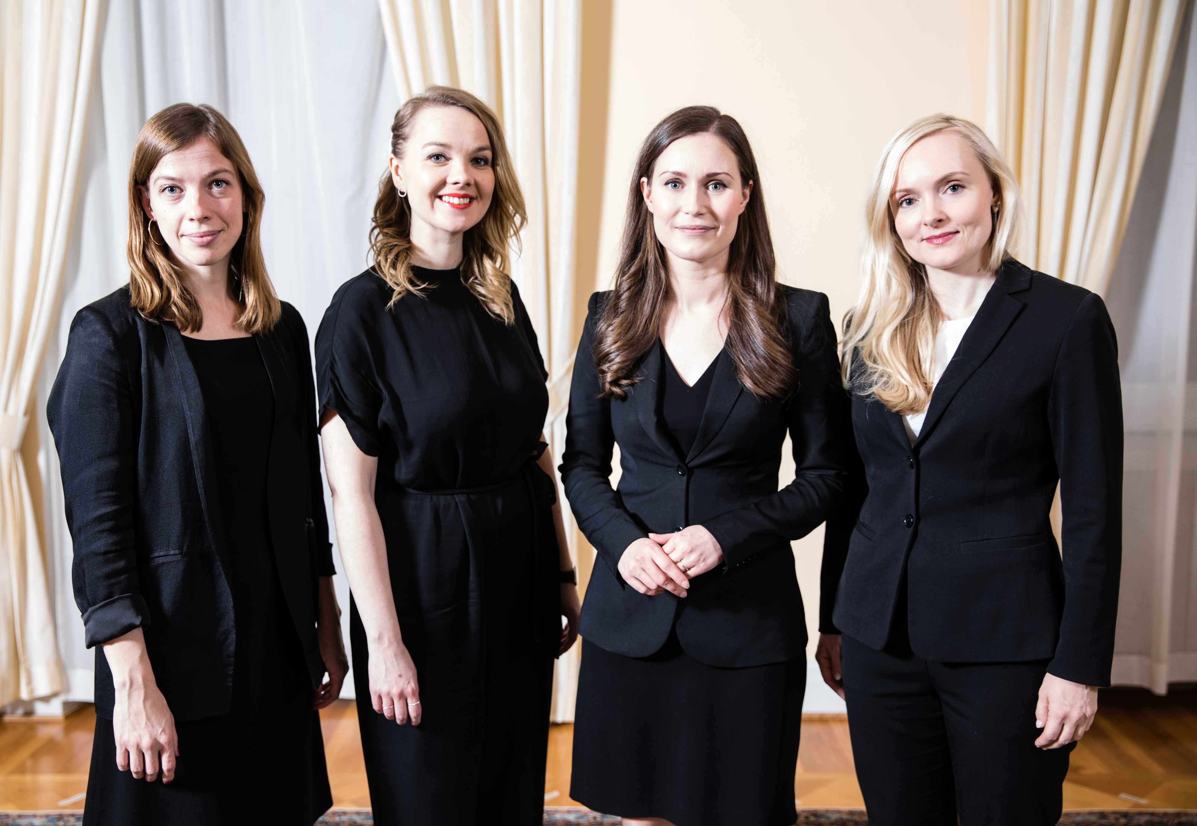 Group picture of the recently appointed Finnish Government Ministers under Prime Minister Sanna Marin